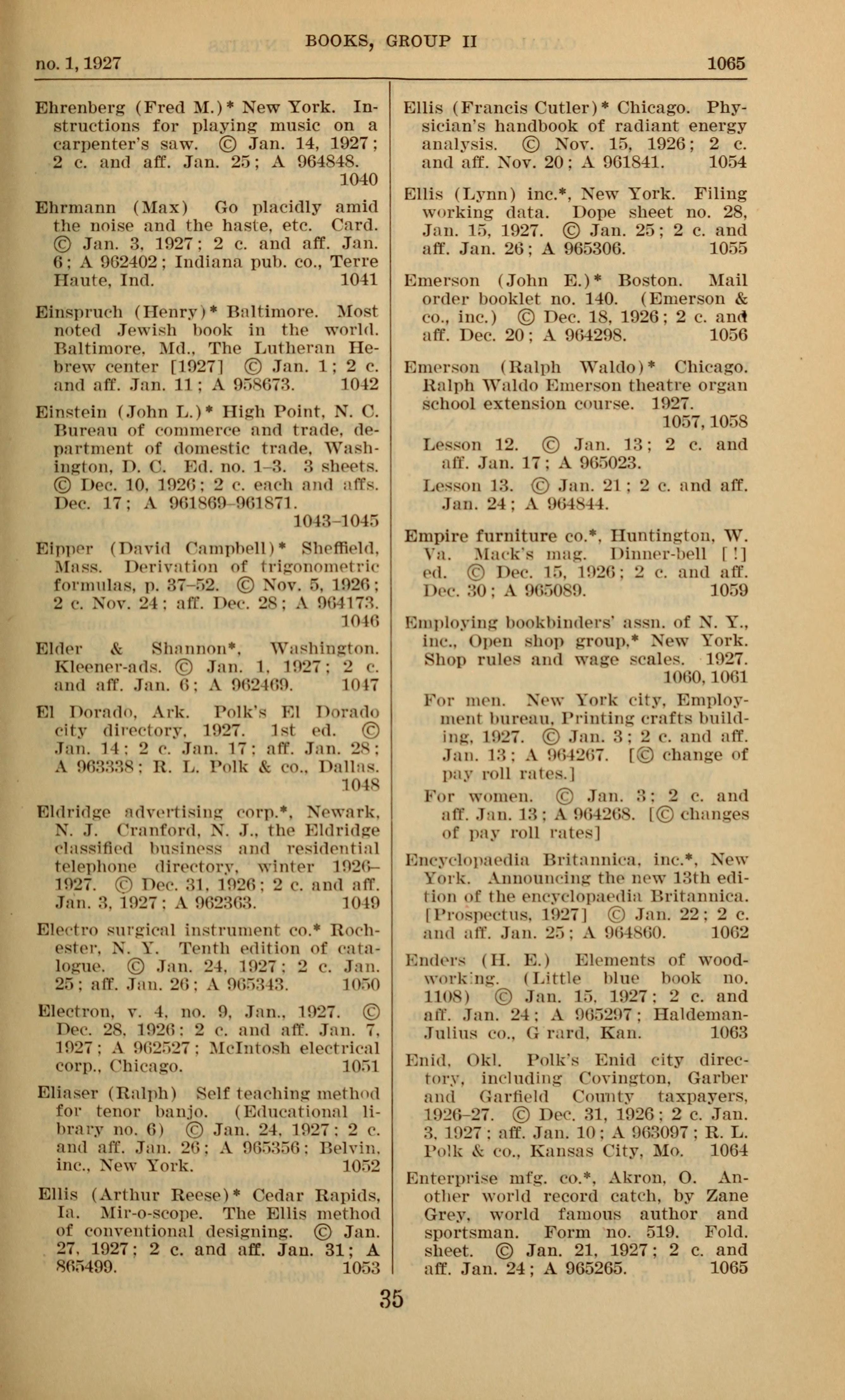 Max Ehrmann poem Desiderata 1927 copyright registration